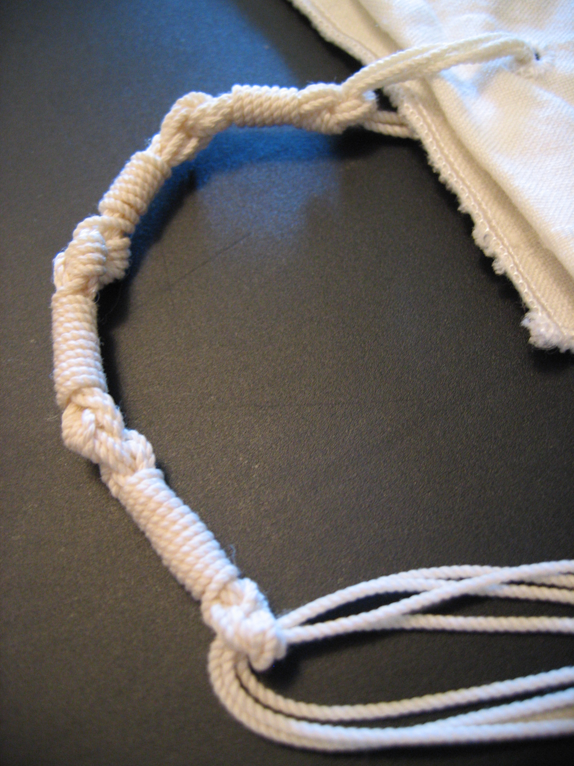 Picture of tzitzit strings